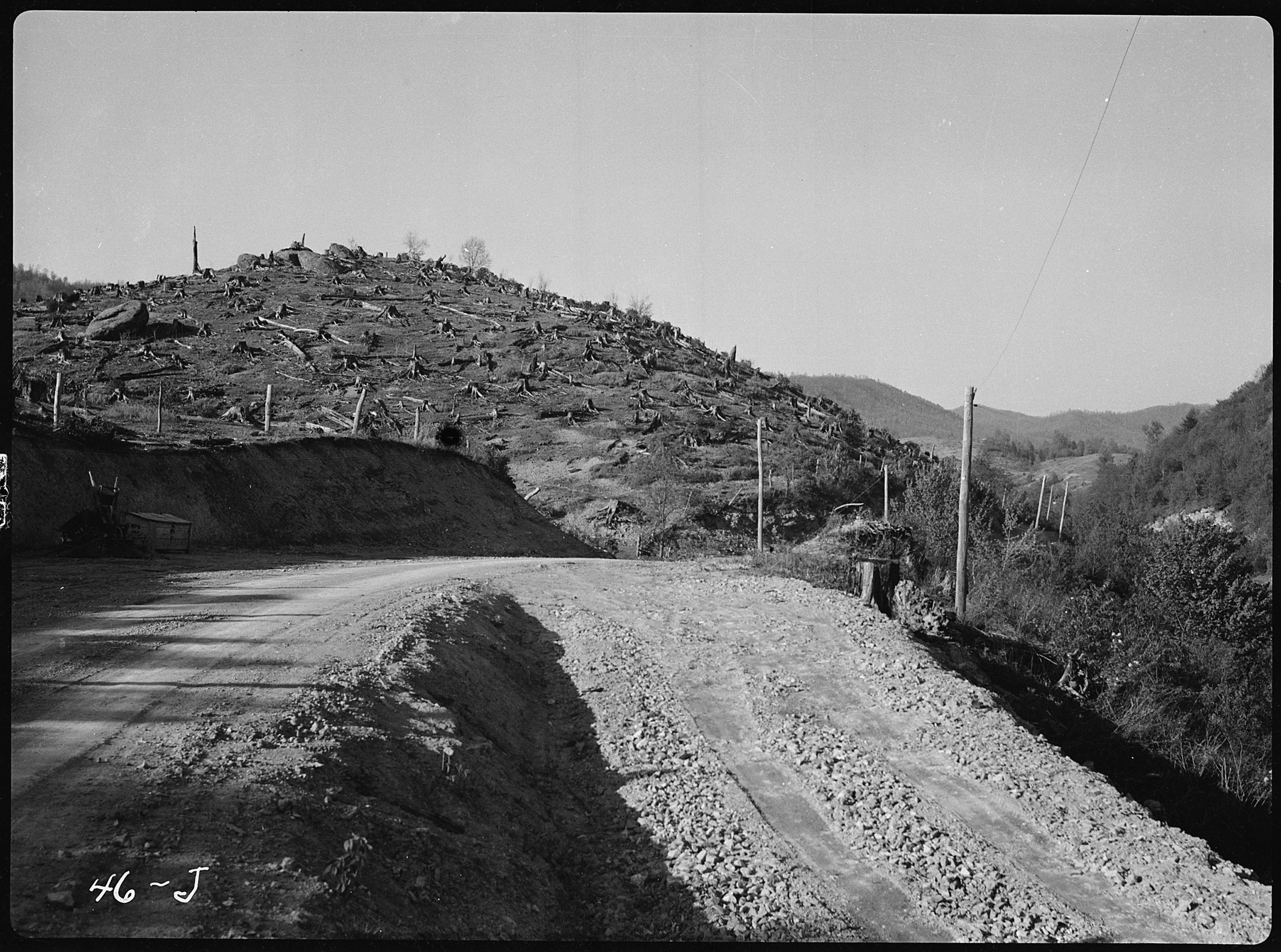 General notes: Clearcut logging in the Blue Ridge Mountains in 1936.Present day renamed as the Pisgah National Forest